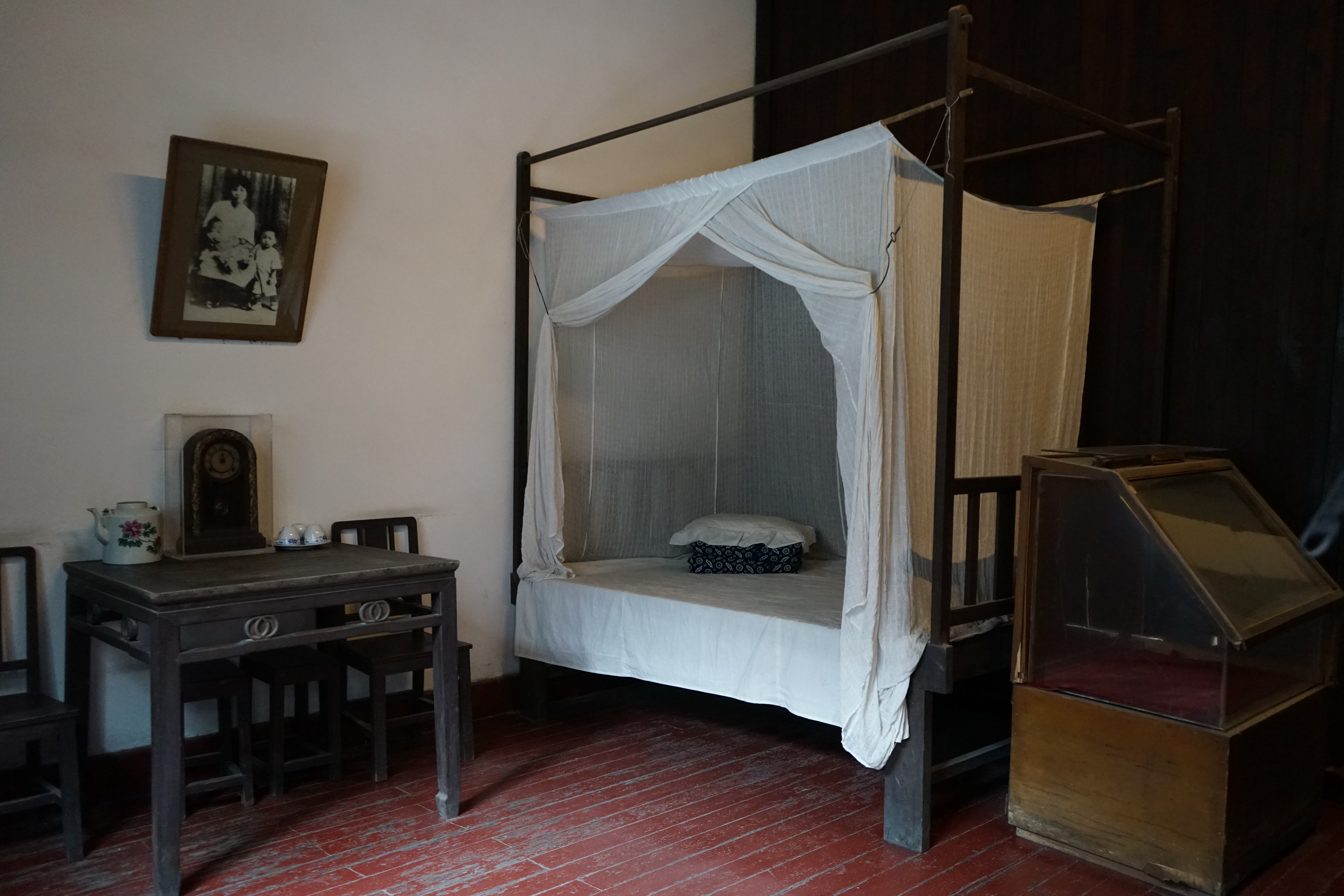 On Feb 12, 1927, Mao returned to Wuchang and lived here, after investigating the peasant movement in Hunan. Mao went out during the day, and wrote in the midnight. On Feb 16, he wrote the investigation report to the CPC Central Commitee on the peasant movement in Hunan. On Mar 5, "Investigation Report on the Peasant Movement in Hunan" was first published in "the Warrior" in Hunan. Then "the Guide" carried part of it. Yangtze Bookstore published its offprint titled by "Peasant Revolution in Hunan".